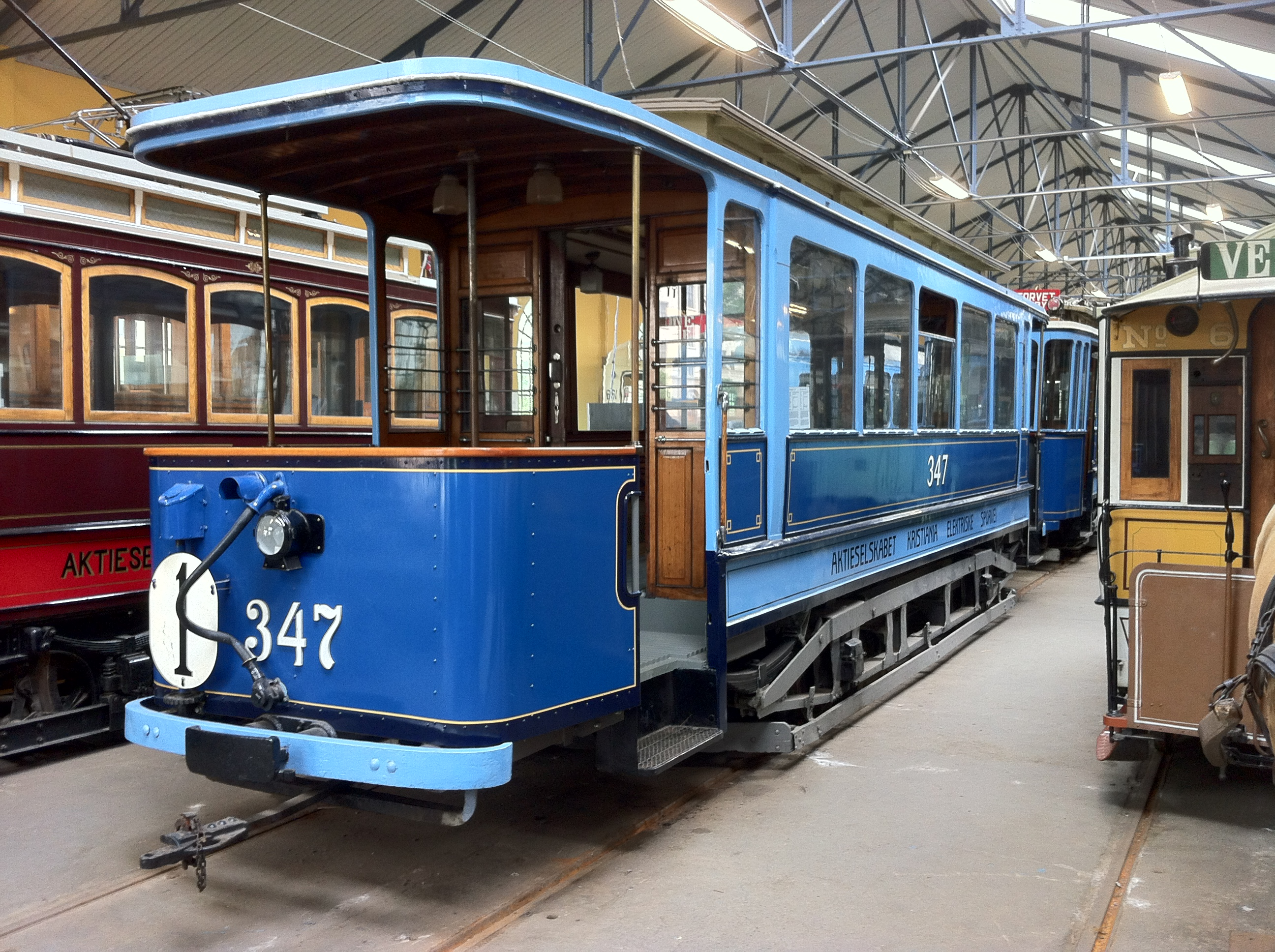 Trailer vehicle purchased in 1913. Built by Skabo of Oslo.